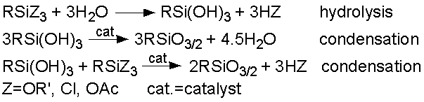 General reaction of silsesquioxane synthesis.